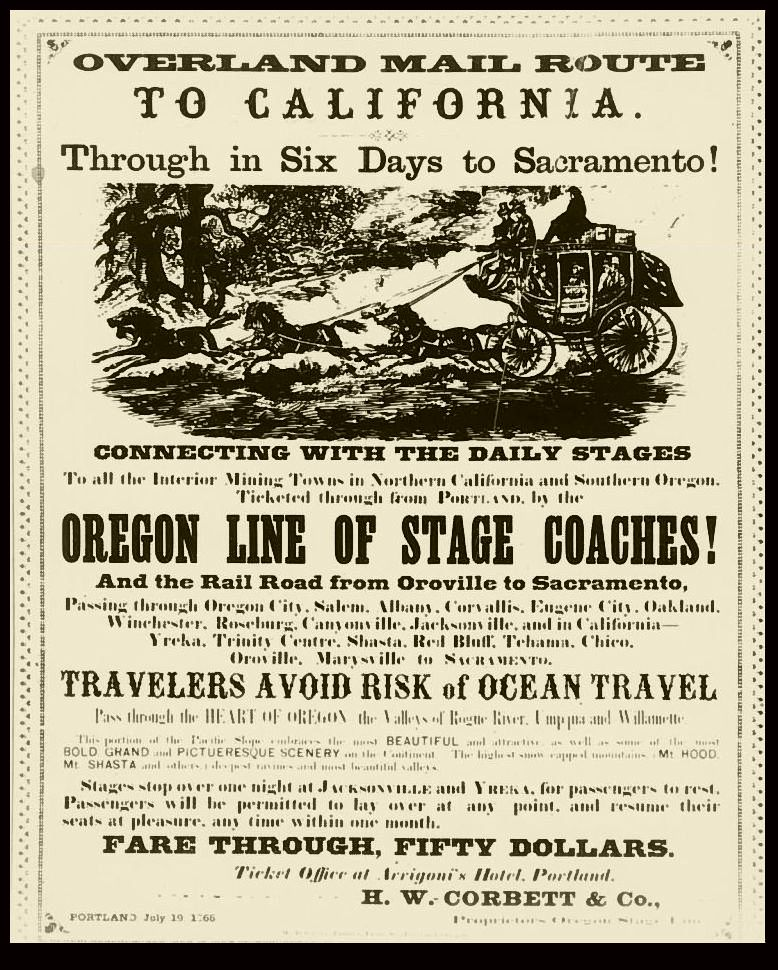 Advertising poster for a stage coach route between Oregon and California